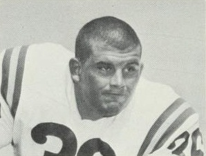 Photograph of UCLA football player Jim Colletto